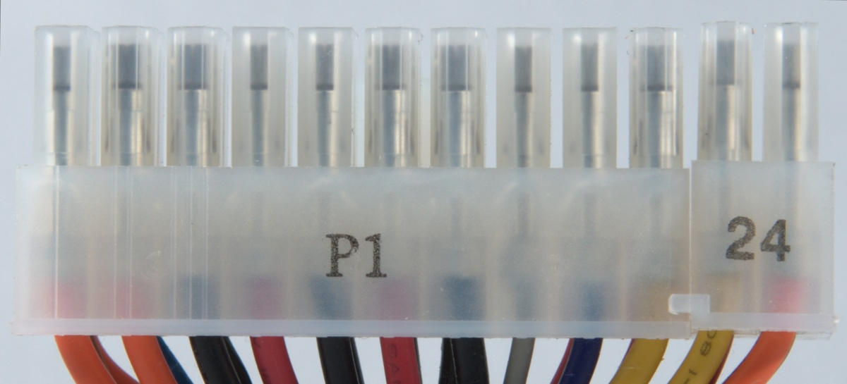 Powerconnector side view